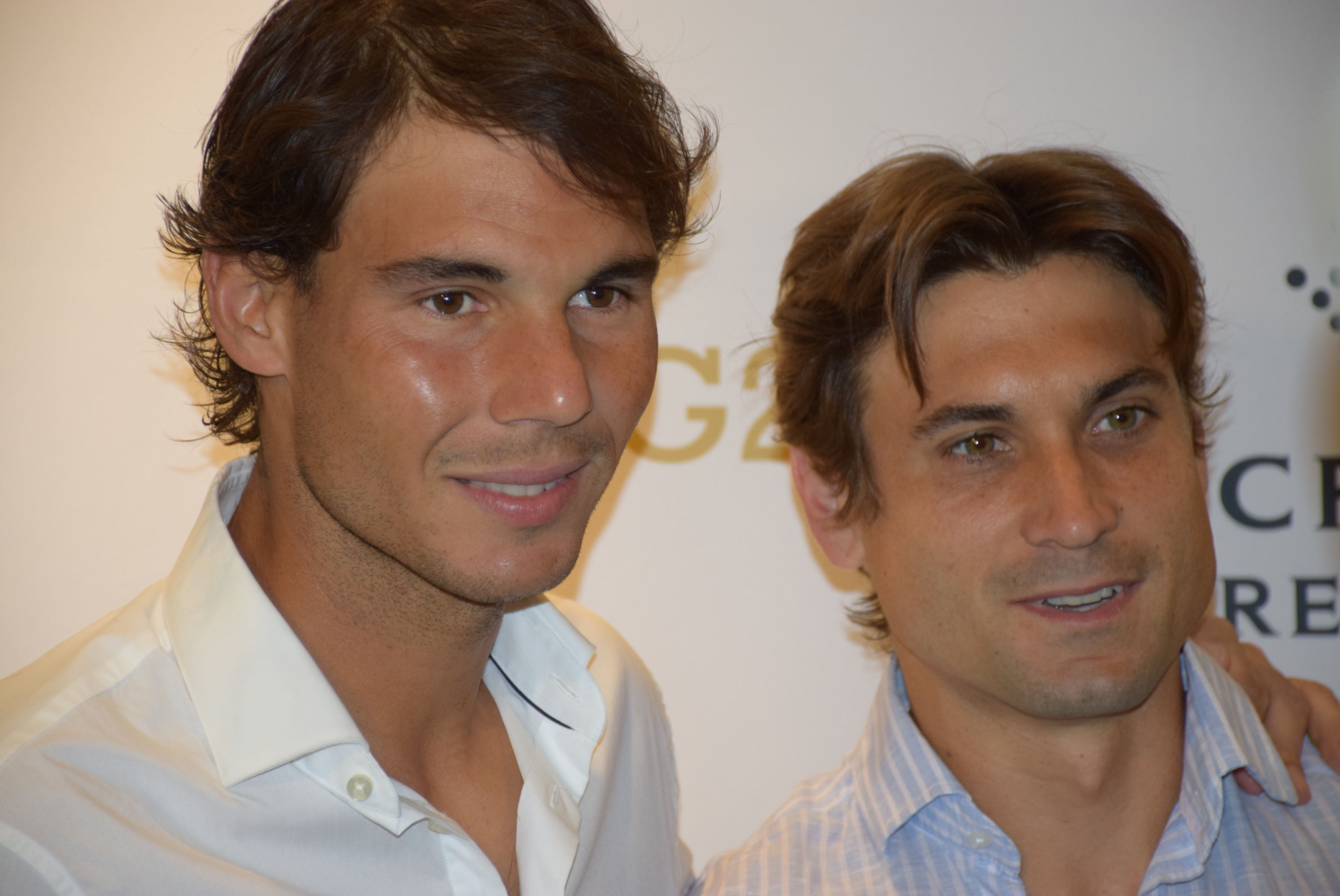 Rafa Nadal and David Ferrer at the IMG@23 Players' Party at Crown